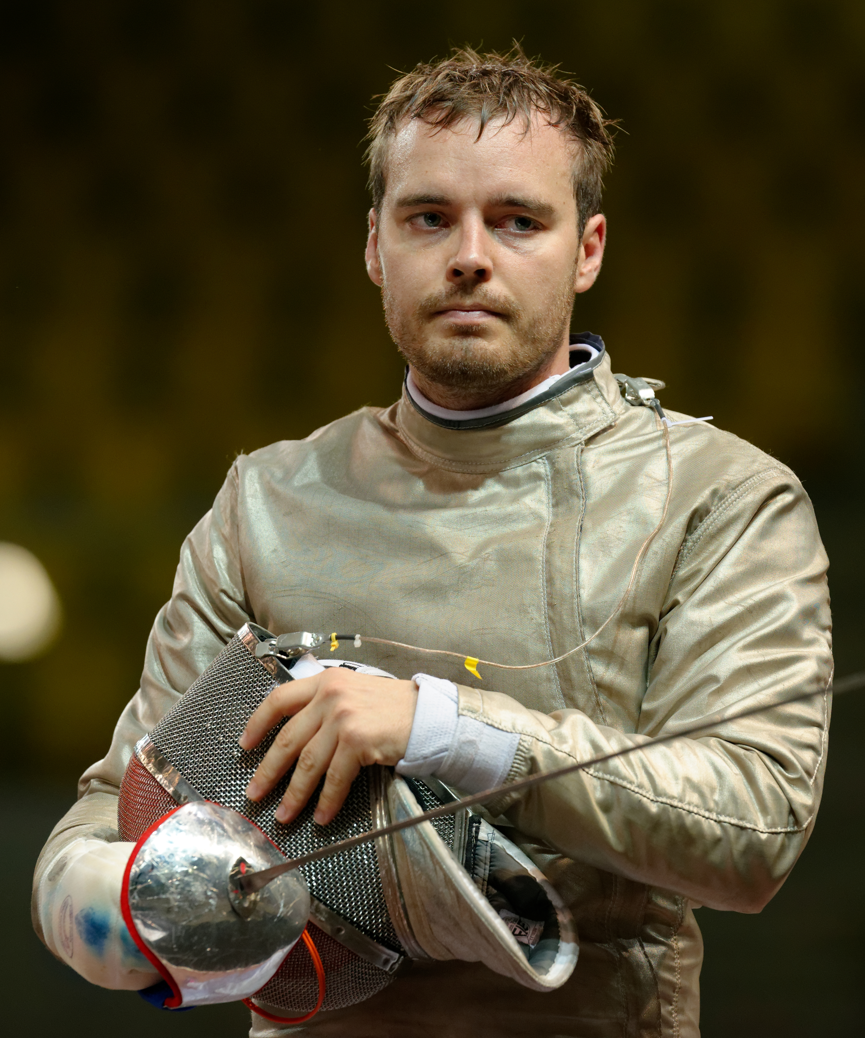 France's Vincent Anstett during the men's sabre team event of the European Fencing Championships at Rhénus Sport in Strasbourg on 14 June 2014.